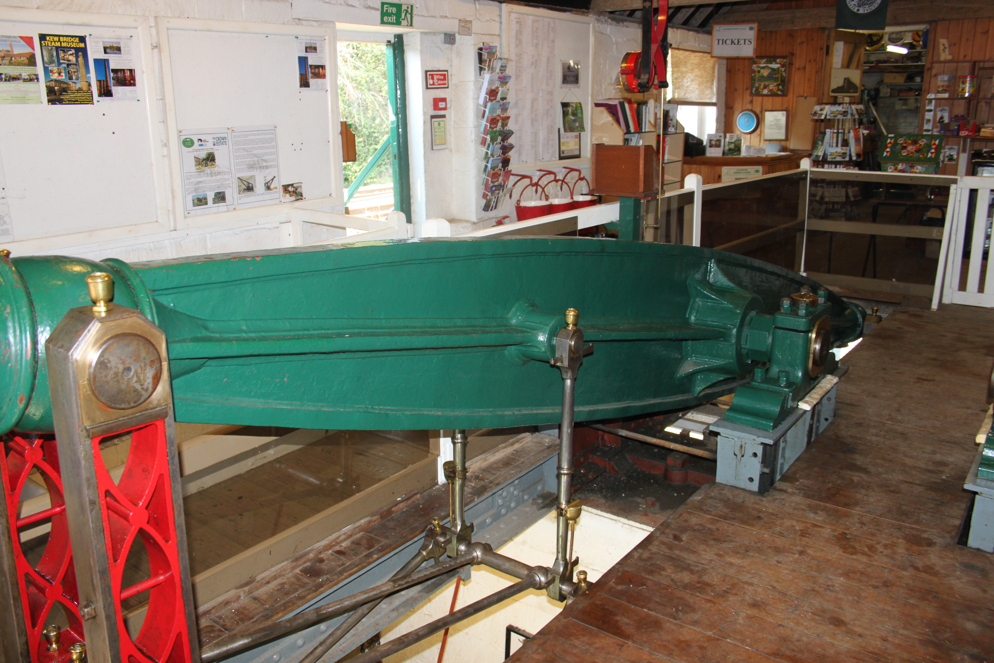 Claverton Pumping Station rocking beam by Boulton and Watt